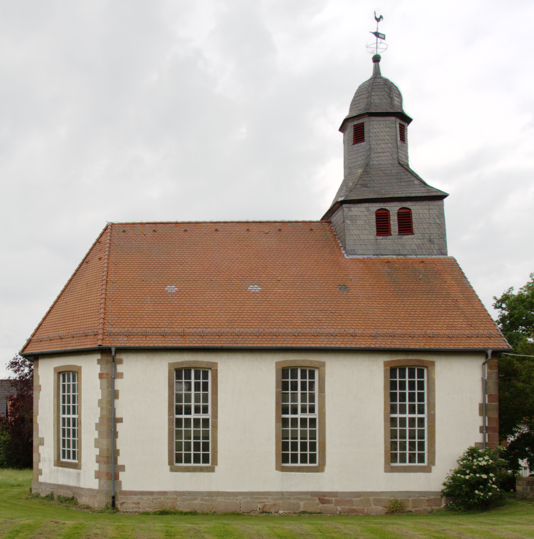 Church in Alsfeld Lingelbach Kasseler Grebenauer Strasse 15 / Hesse / Germany